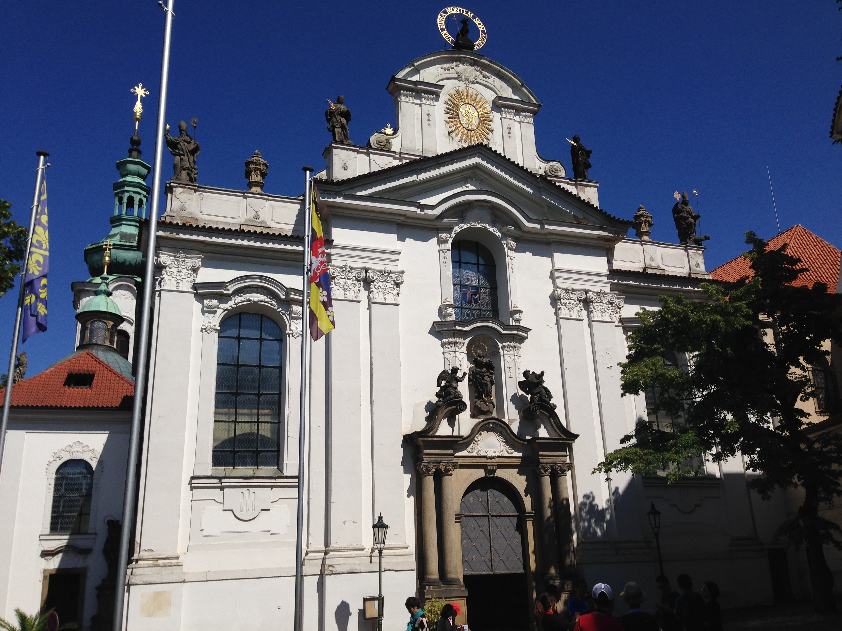 The Basilica of the Assumption in Strahov Monastery, Prague, Czech Republic.